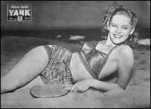 Pin-up photo of Alexis Smith for the Mar. 9, 1945 issue of Yank, the Army Weekly, a weekly U.S. Army magazine fully staffed by enlisted men.